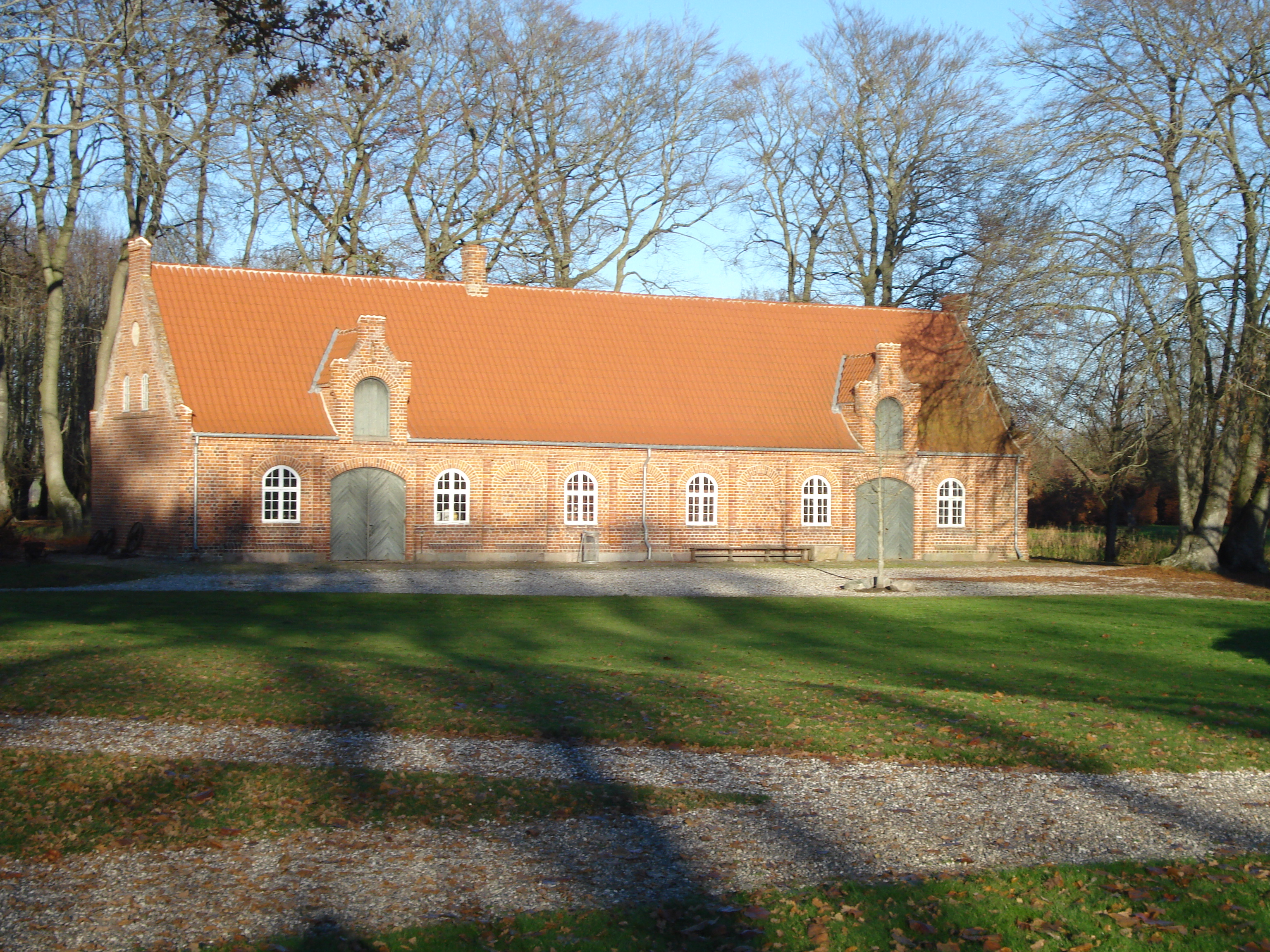 The horse stable in the park at Rosenholm Castle. Builded 1896. Architect Axel Berg.